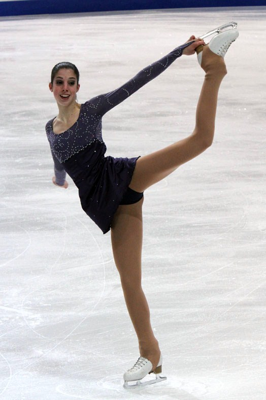 Alice Garlisi at the 2011 European Figure Skating Championships